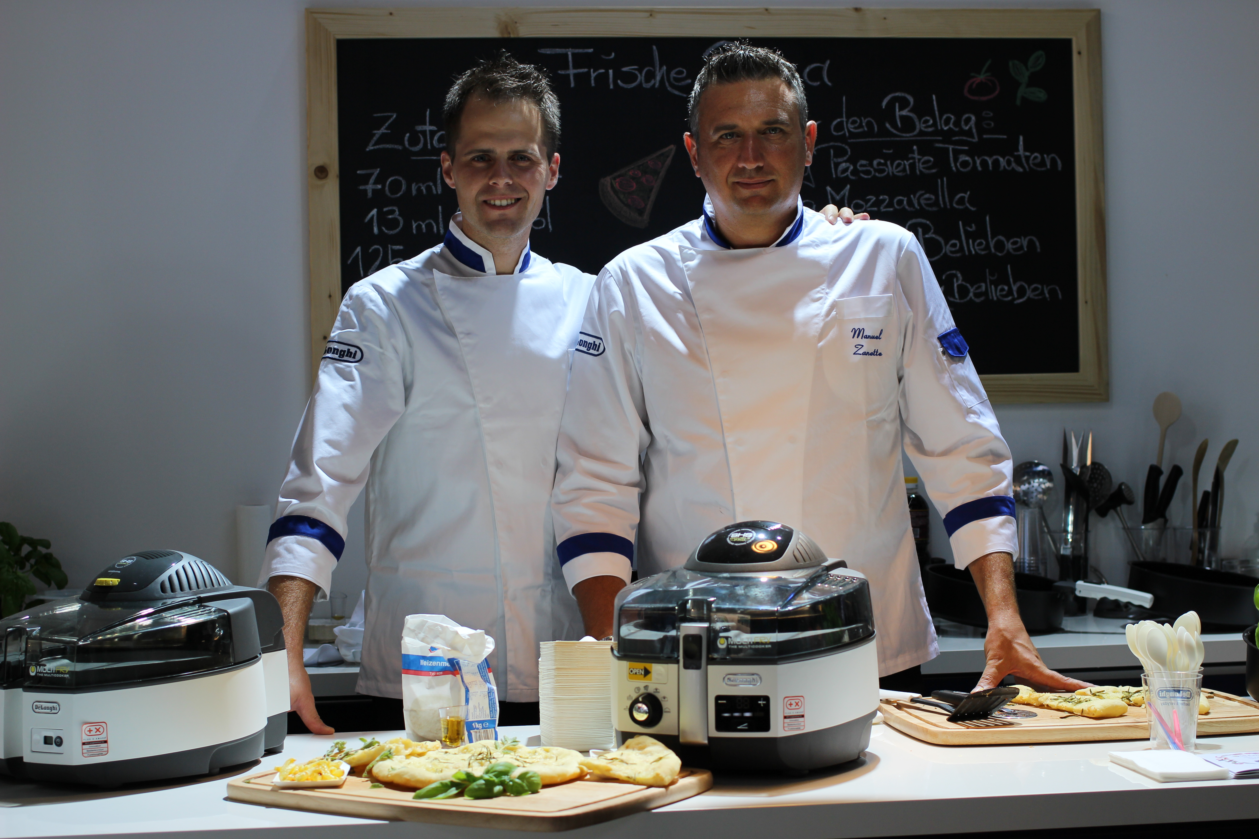 Food Science Specialists Alessandro Benedetti and Manuel Zanette with De'Longhi Multifry